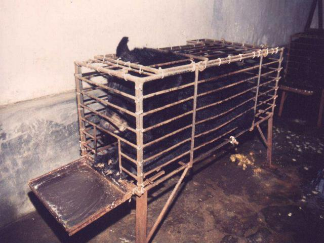 A bile bear kept in captivity so that her bile can be extracted. The image was taken by the Asian Animal Protection Network in Huizhou Farm, Vietnam. The bear has since been removed from there and is living in China.